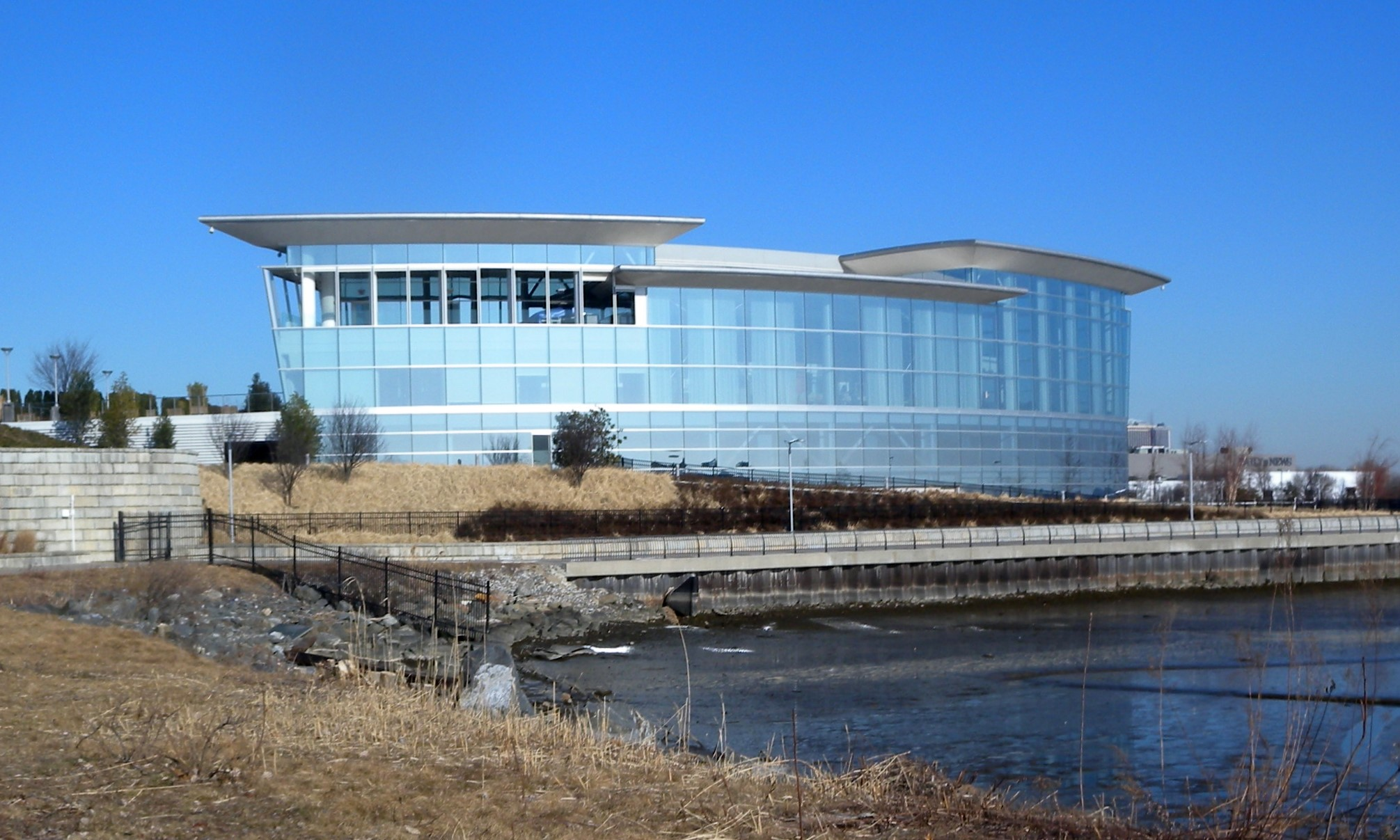 Looking east at Liberty clubhouse on a sunny early afternoon.